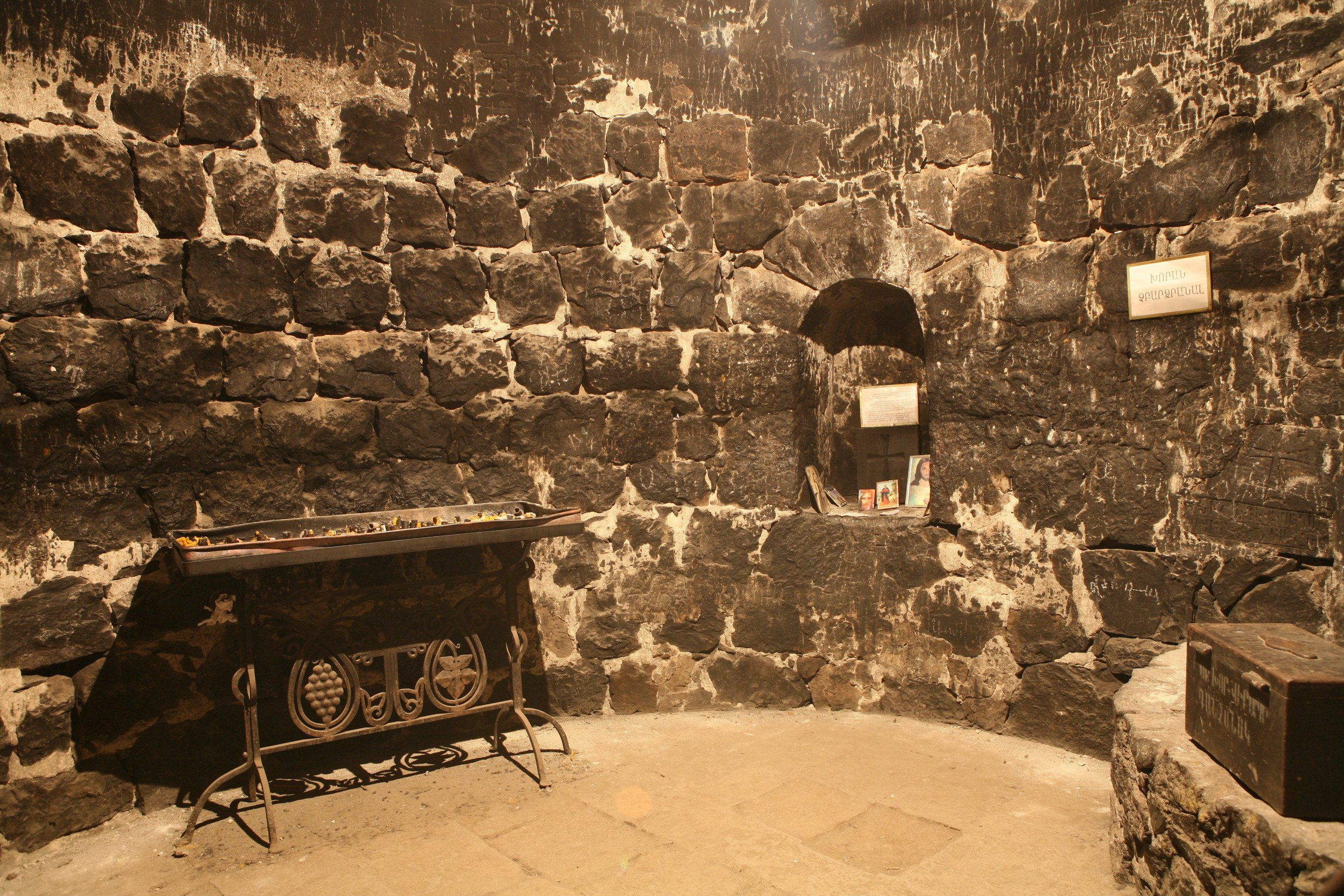 Gregory the Illuminator’s Cell in Khor-Virap